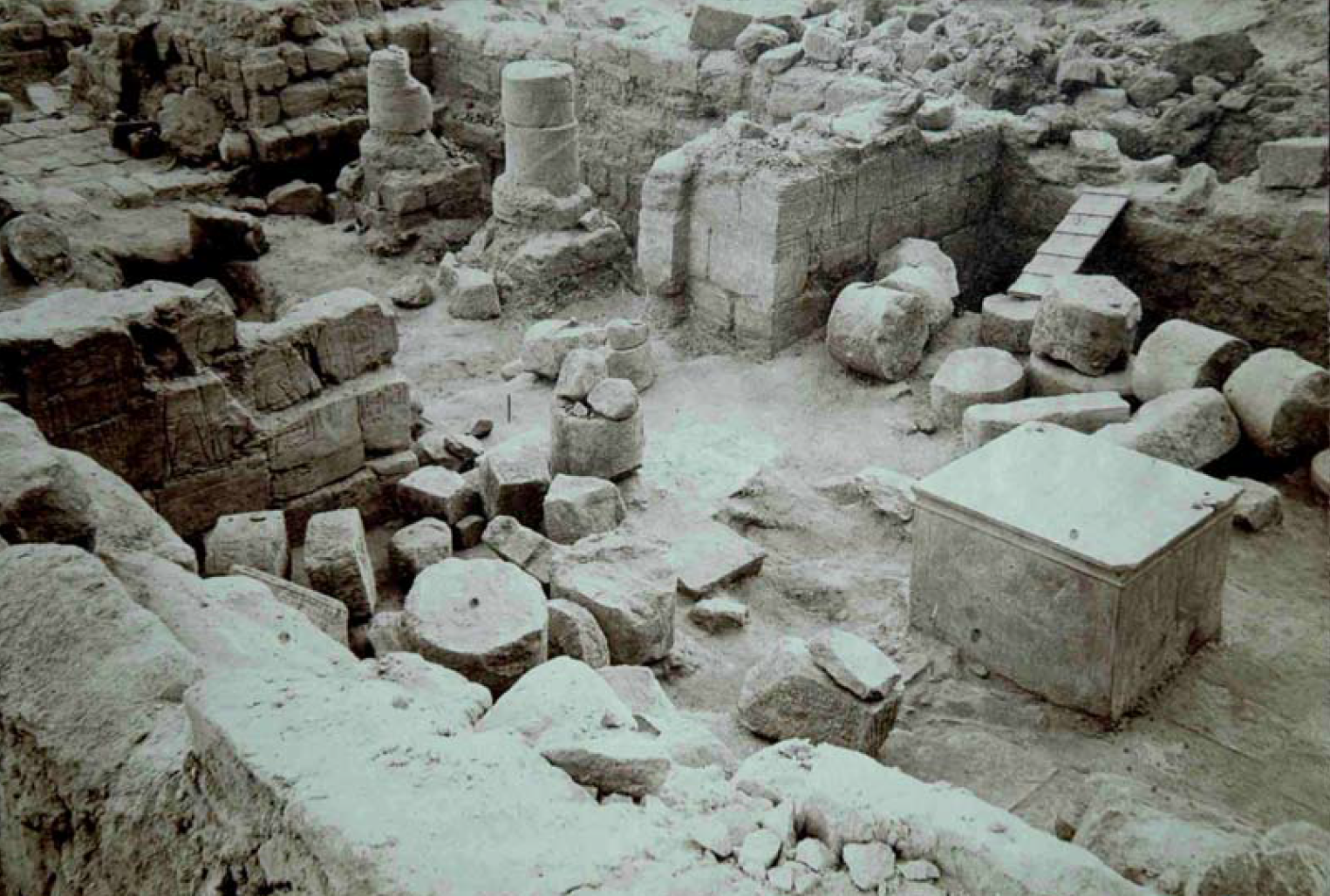 Original 1916 photography by George Andrew Reisner (November 5, 1867 – June 6, 1942) of room 703 in temple B700 at Jebel Barkal, showing the boat stand of Atlanersa in situ